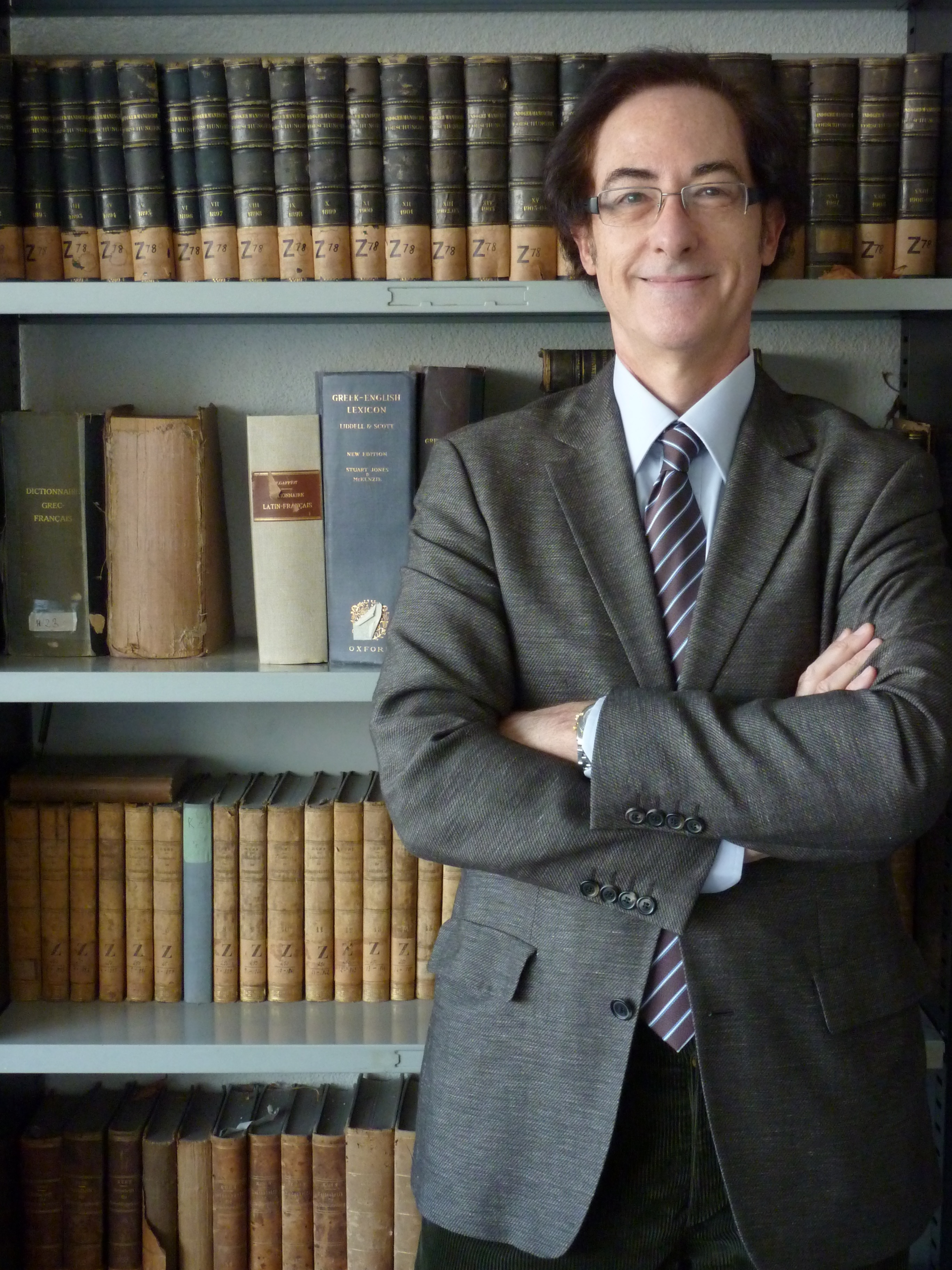 Laurent Pernot, a French hellenist